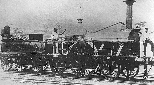 Photograph of GWR 2-2-2 Firefly Class, 'Argus' built by Fenton, Murray and Jackson.